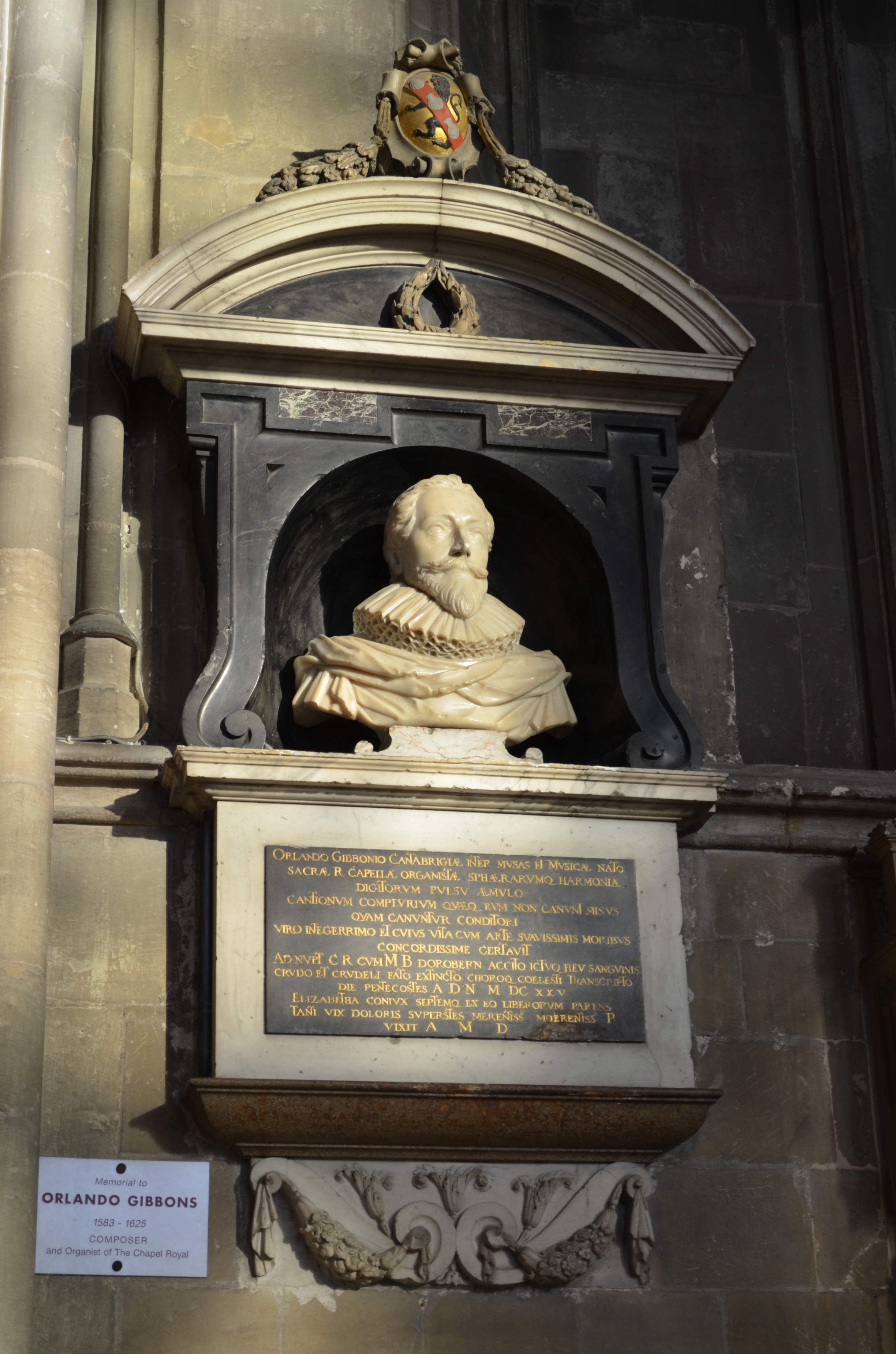 The famous composer and organist 1583-1625.